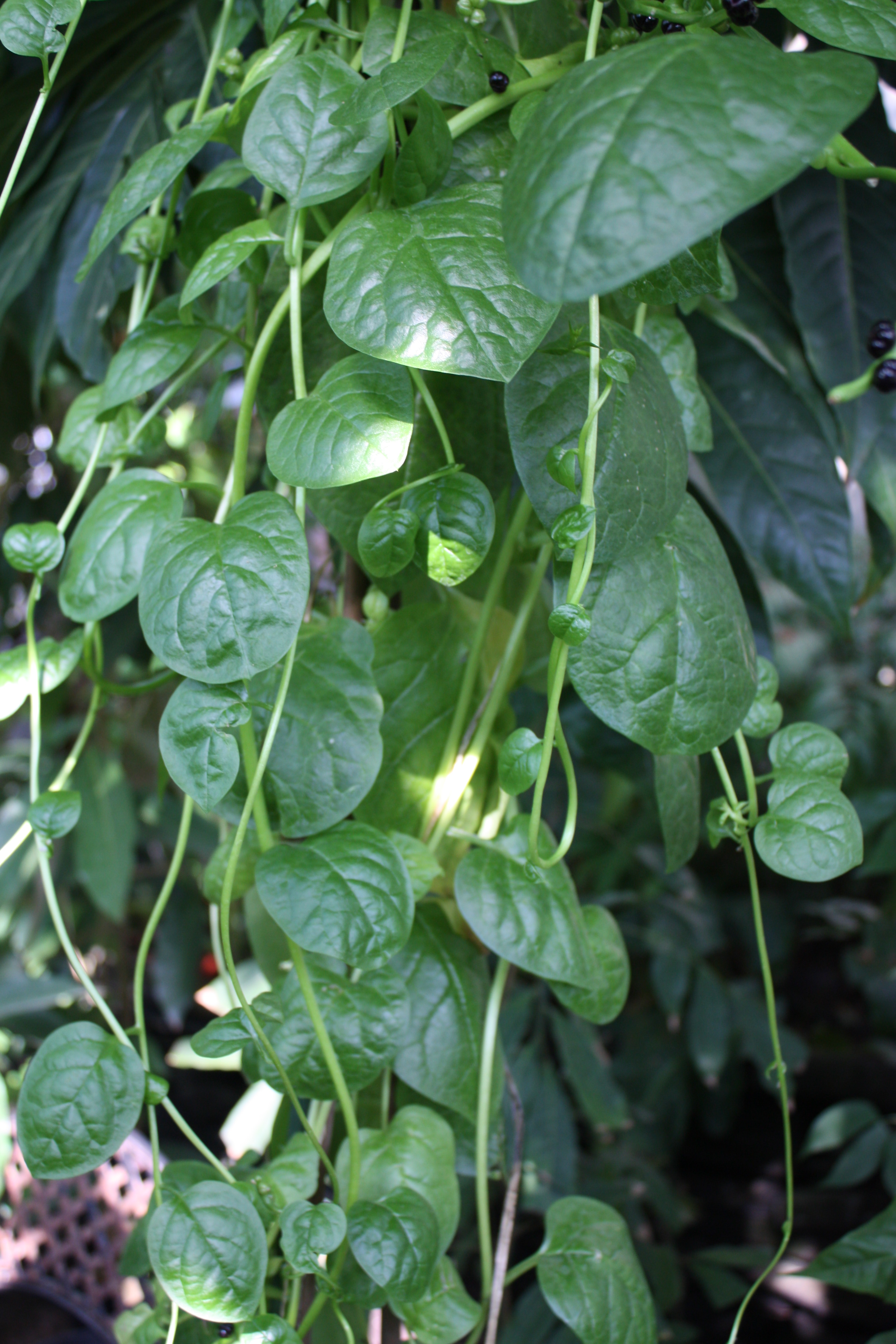 Malabar spinach (or Phooi leaf, Red vine spinach, Creeping spinach, Climbing spinach) (Basella alba) in The Tropical Garden of Gardenia-Helsinki